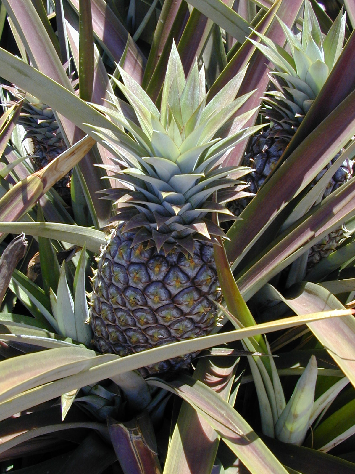 Ananas comosus (leaves and fruit). Location: Maui, Makawao